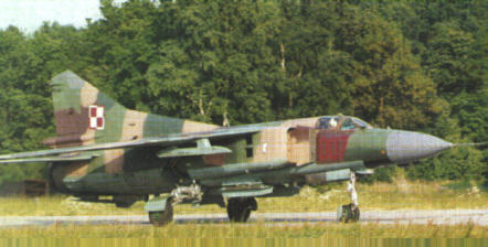 Mikoyan-Gurevich MiG-23